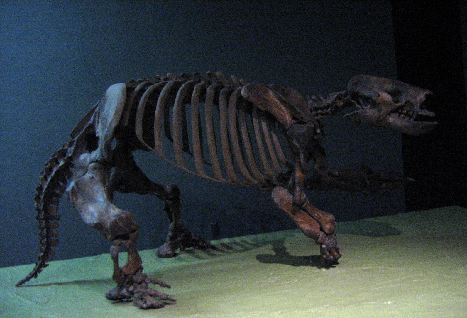 Ground Sloth (Paramylodon harlani) fossil at the National Museum of Natural History, Washington, D.C.